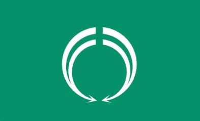 Flag of Matsushige Tokushima